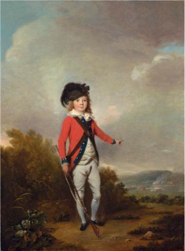 Cleaned post 2001 version of Philip Reinagle (1749-1833) portrait of John Windham Dalling (1769-1786). Other information Sitter died in 1786, and the artist in 1833.